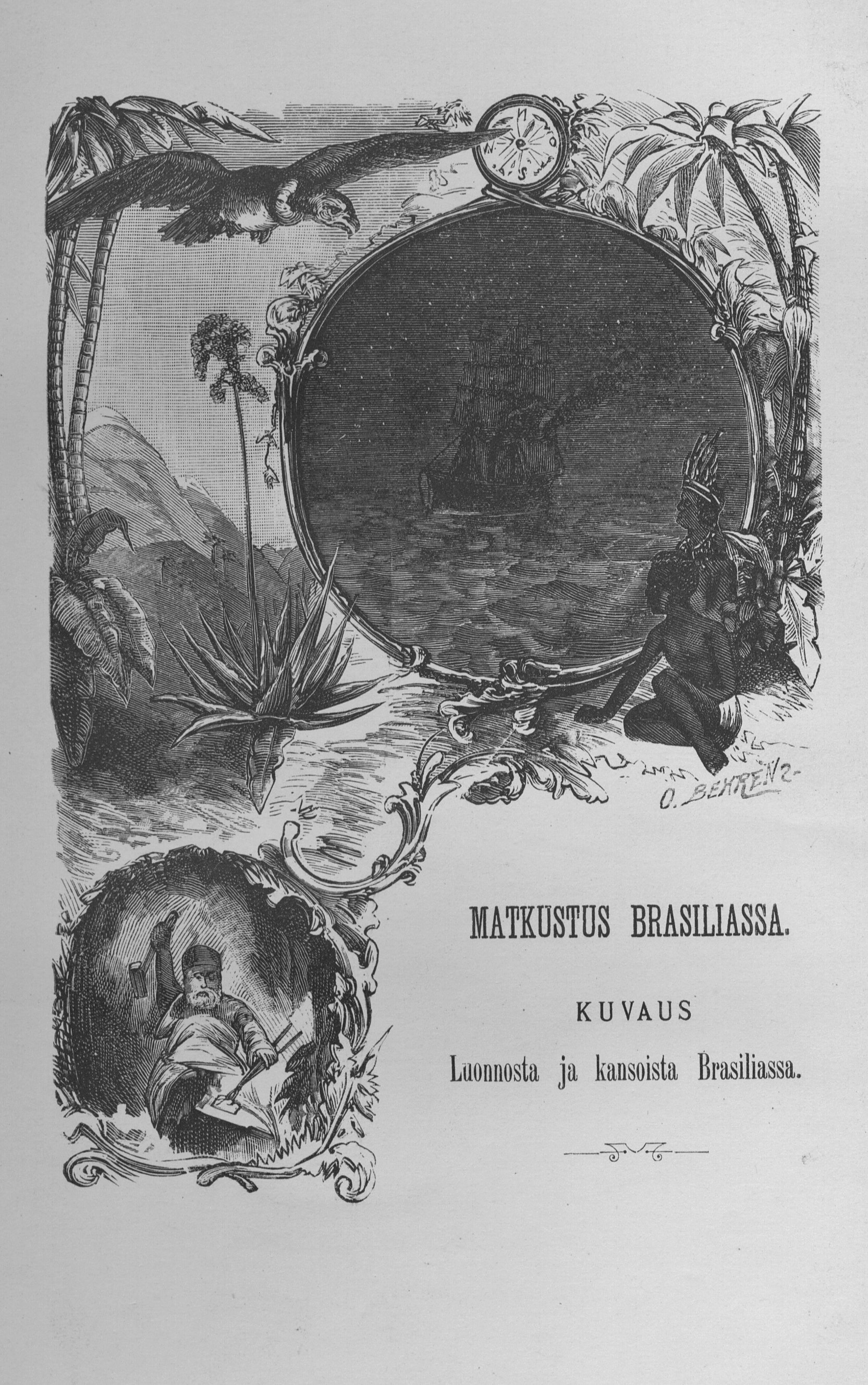 Cover of the 1888 book Matkustus Brasiliassa. Kuvaus luonnostaja kansoista Brasiliassa ("Travels in Brazil. A Description of Nature and Travels in Brazil") by Edvard A. Vainio